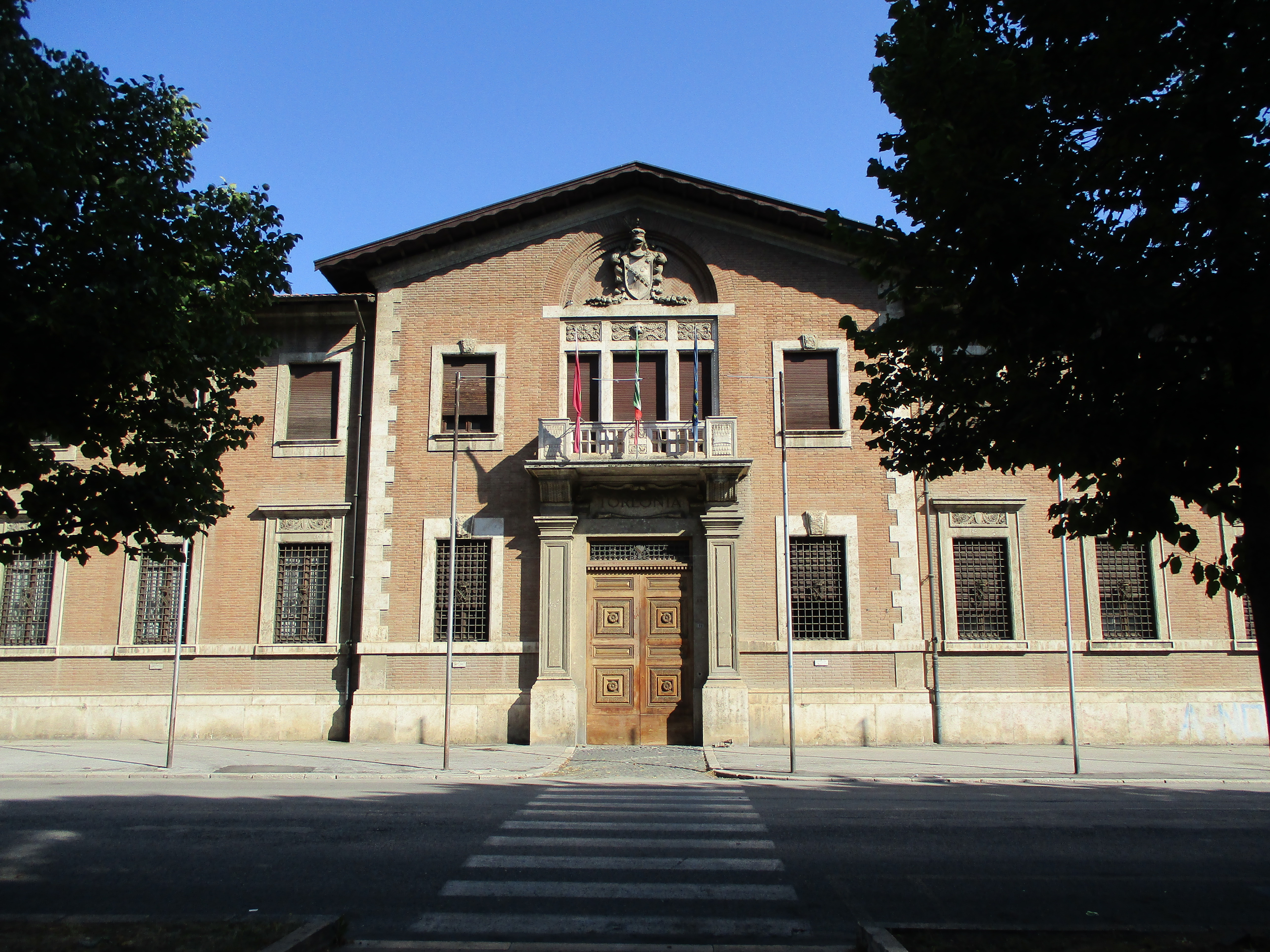 Torlonia palace, Avezzano, Abruzzo, Italy